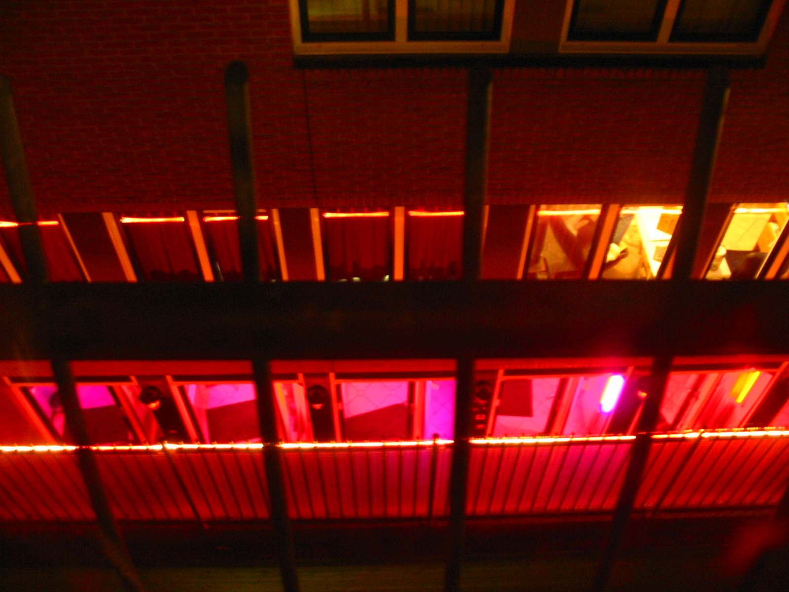 AmsterdamRed lights in the Red Light District